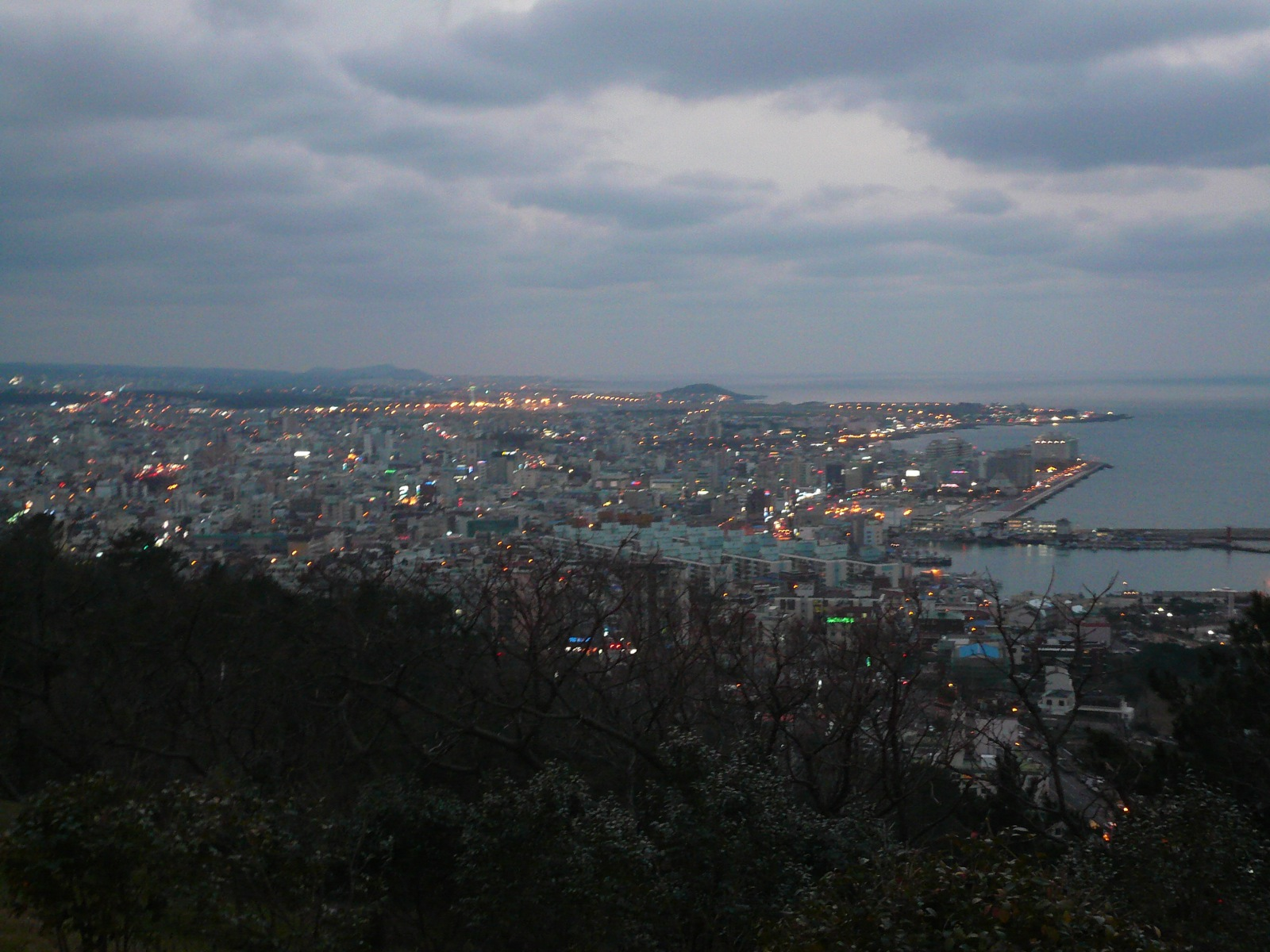 Jeju Island, South Korea